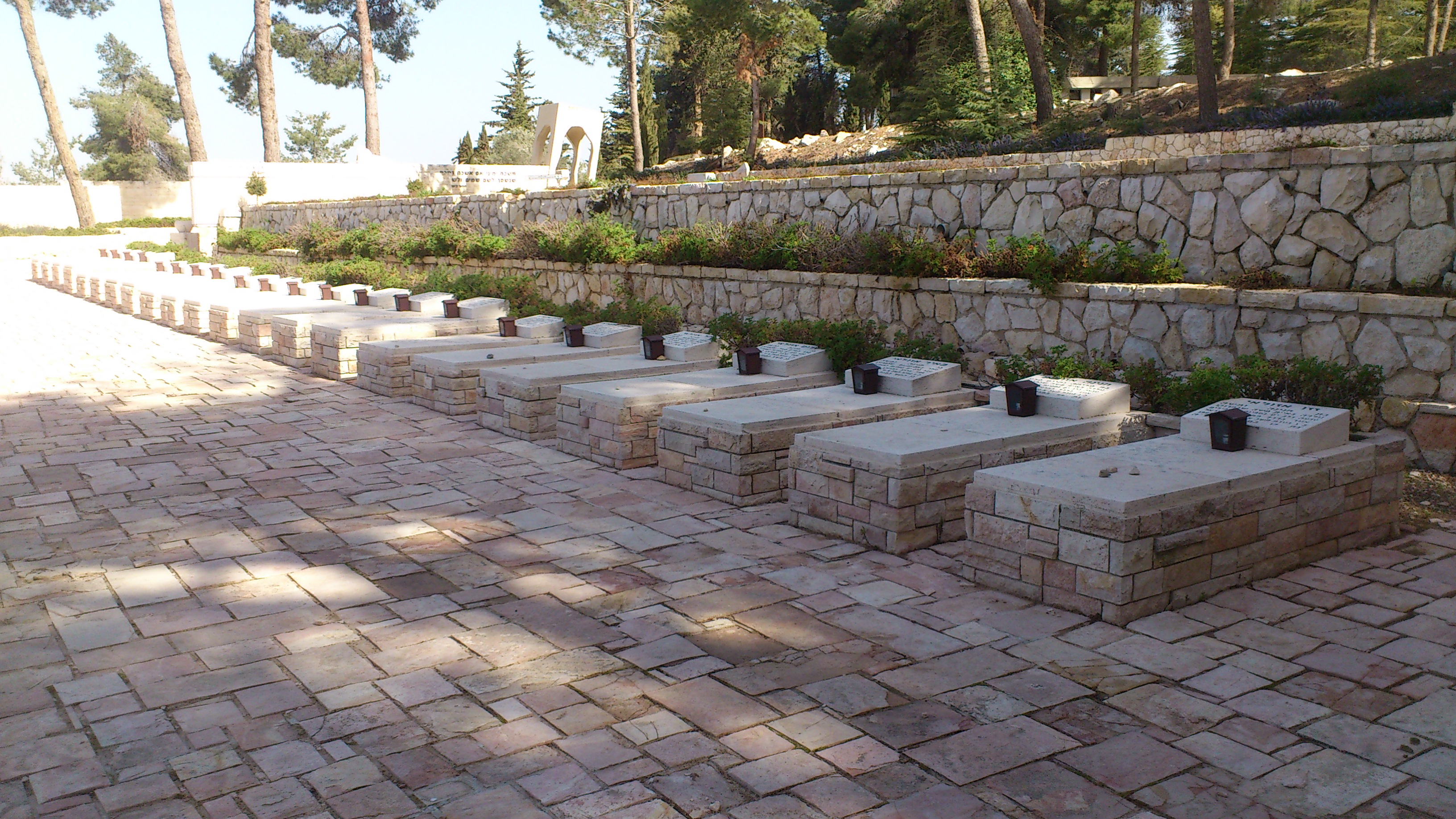 Common Grave for the illegal immigrants aboard Egoz